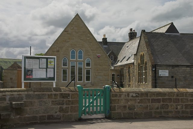 Danby School The building on the left is only a couple of years old and has been beautifully crafted in stone over a steel frame.